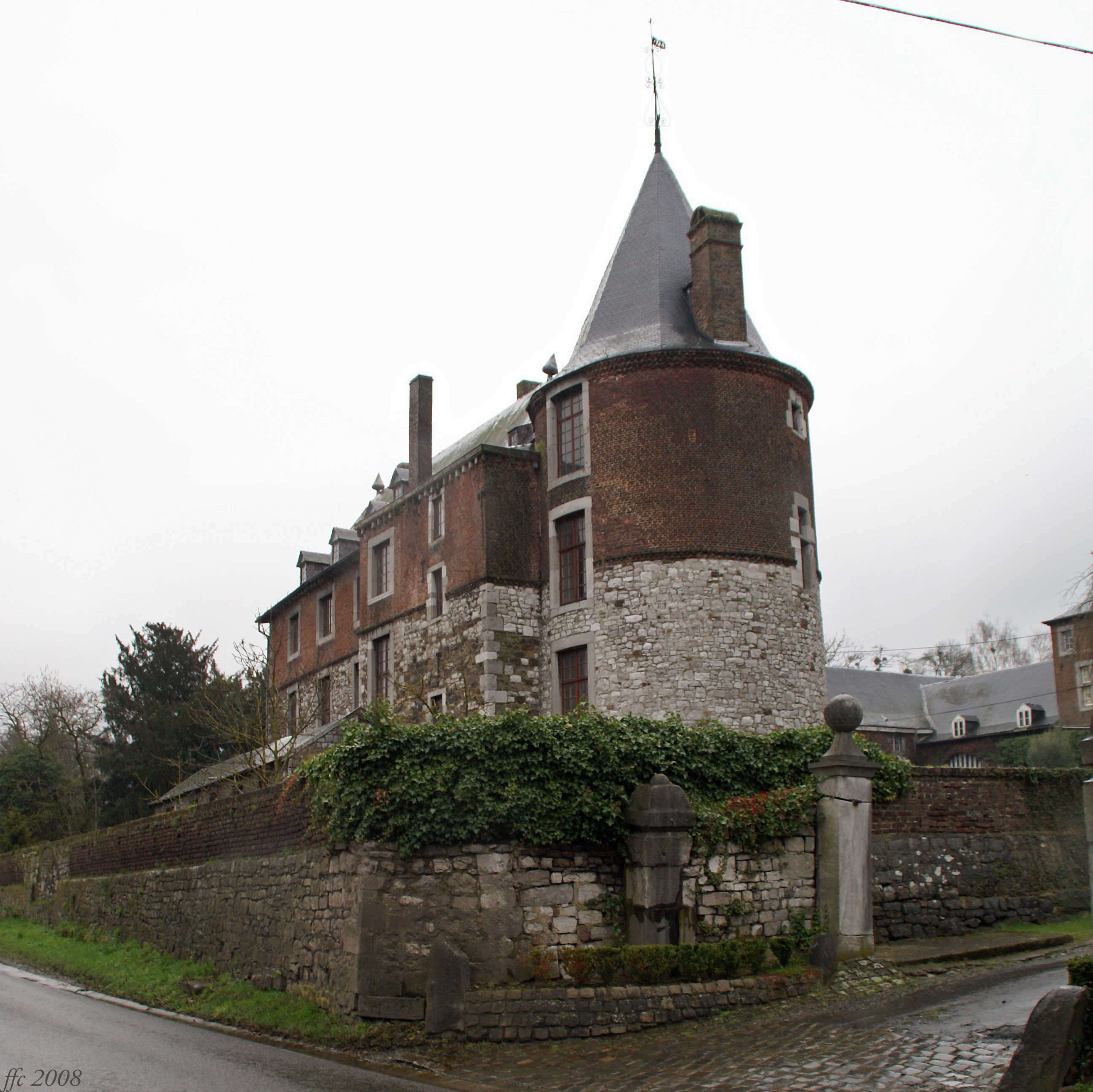 Ivoz-Ramet (Ramet), Belgium: Ramet Castle